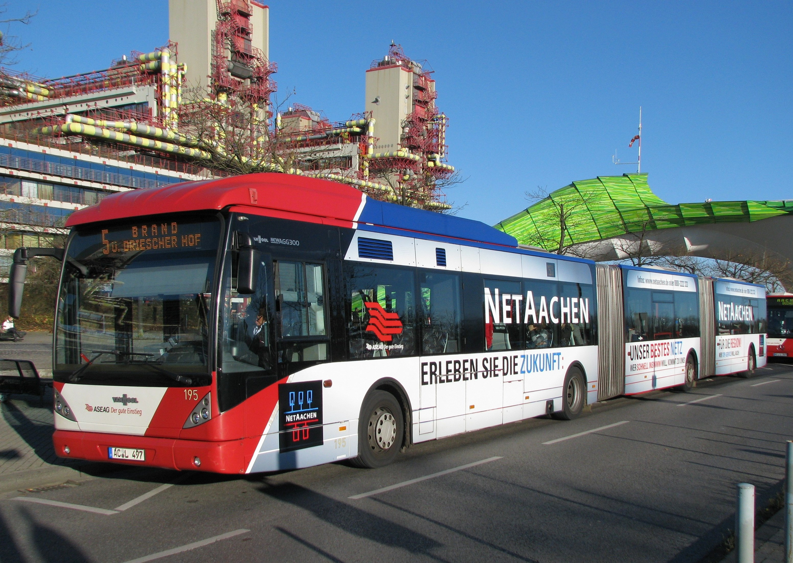 Bi-articulated bus Van Hool newAGG300 (Aachen dialect: Öcher Long Wajong) from ASEAG in Aachen at the bus stop university hospital as line 5 to Aachen-Brand via Driescher Hof.